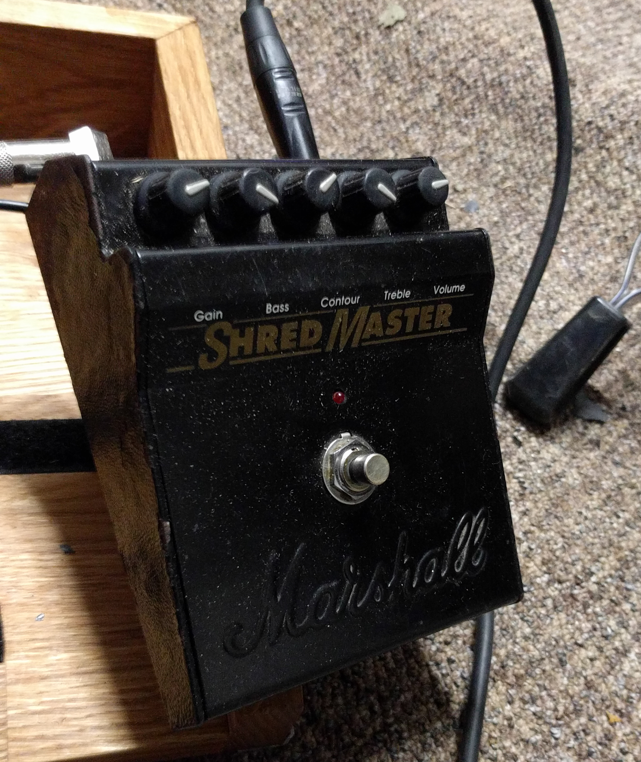 ShredMaster Distortion pedal from the front with plugged in jack and powersupply.